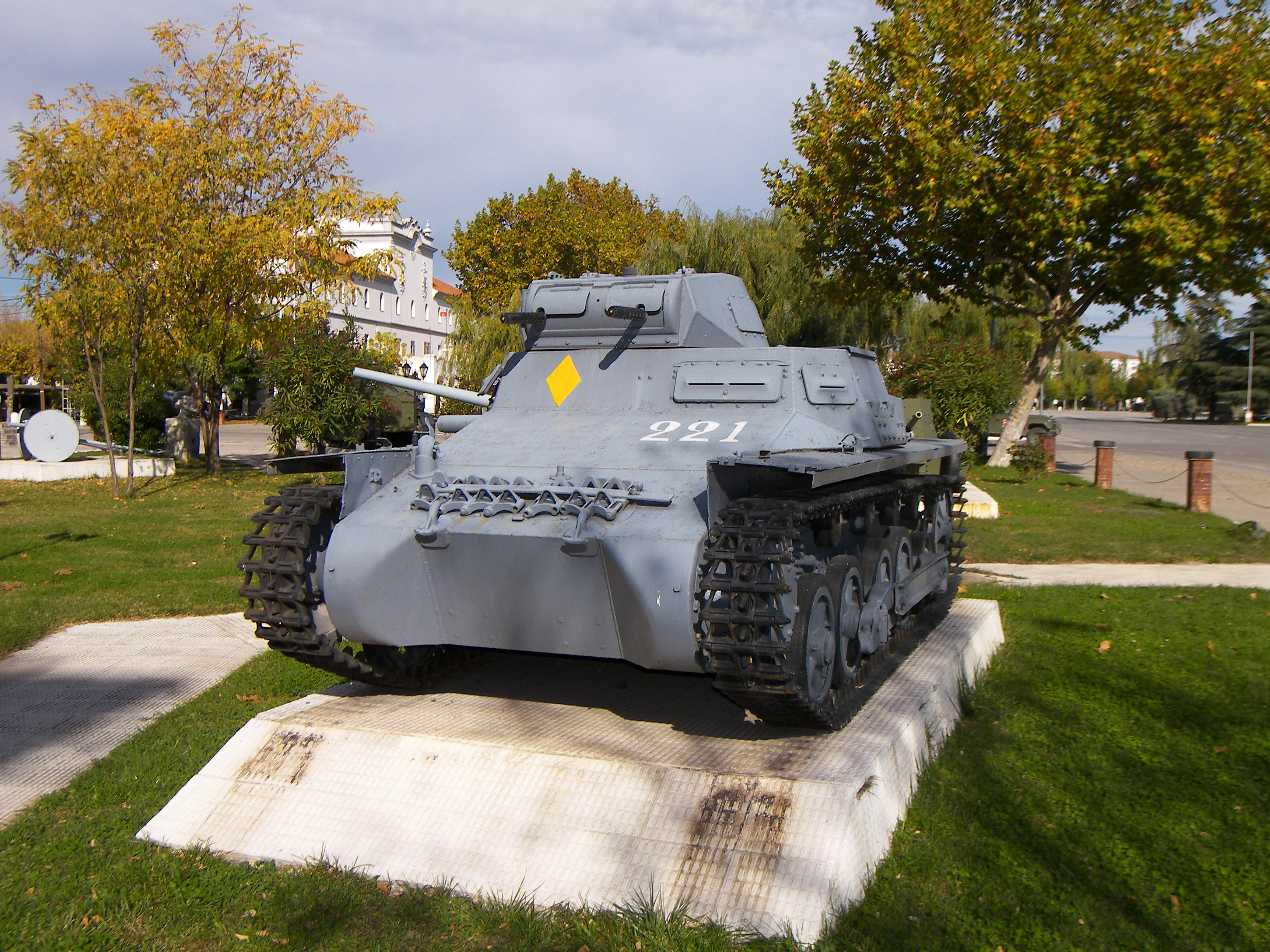 Panzer I Ausf. B at the Museum of Armored Vehicles at El Goloso, Spain